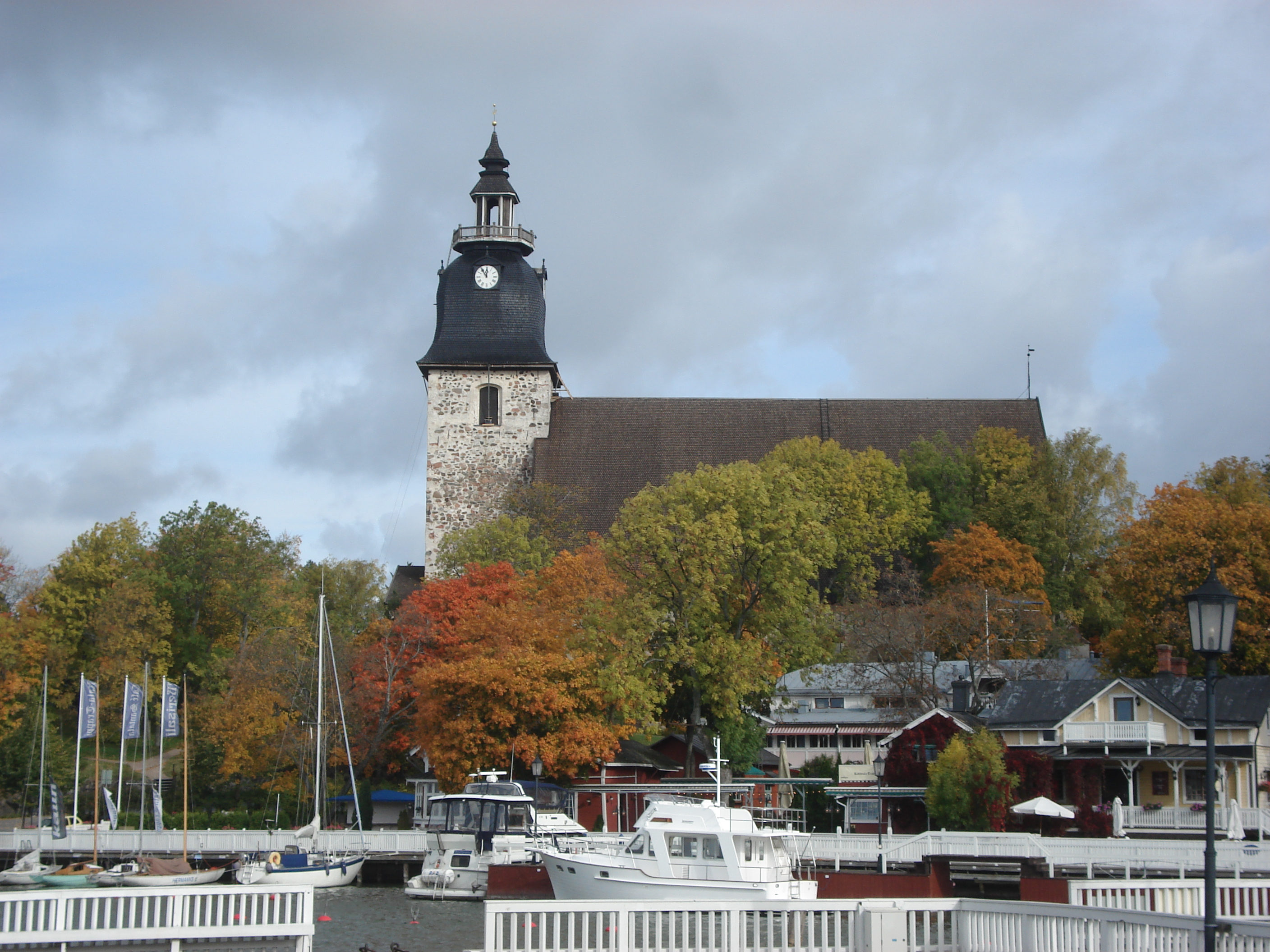 Church of Naantali in Naantali, Finland.